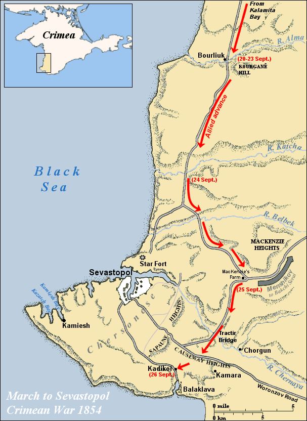 Allied march to Sevastopol. Crimean War, September 1854. Based on map in R. L. V. ffrench Blake's The Crimean War